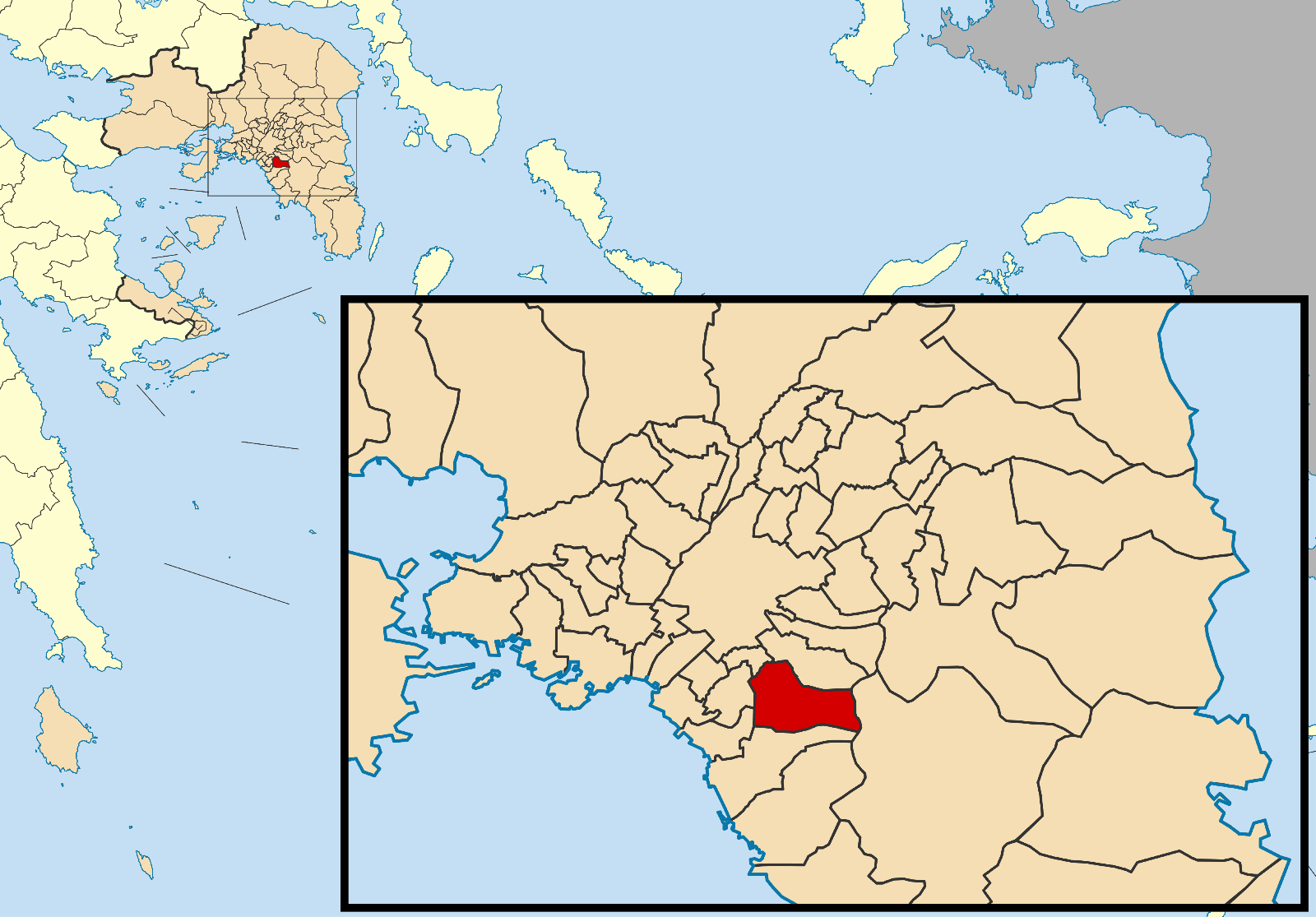 Locator map for Ilioupoli municipality in Greek region Attica (2011)